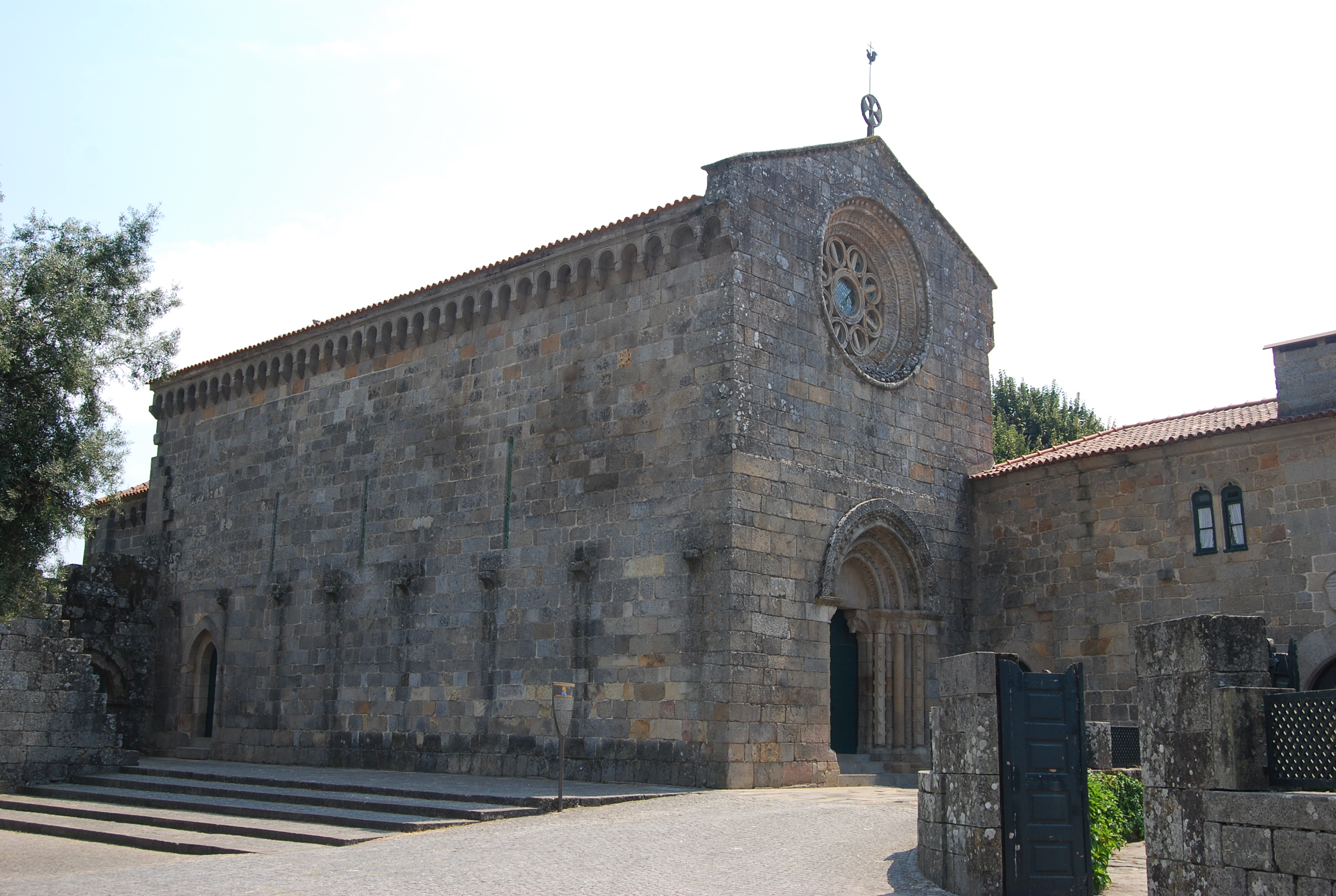 This file was uploaded for Wiki Loves Monuments in Portugal with the unique identifier 70684.